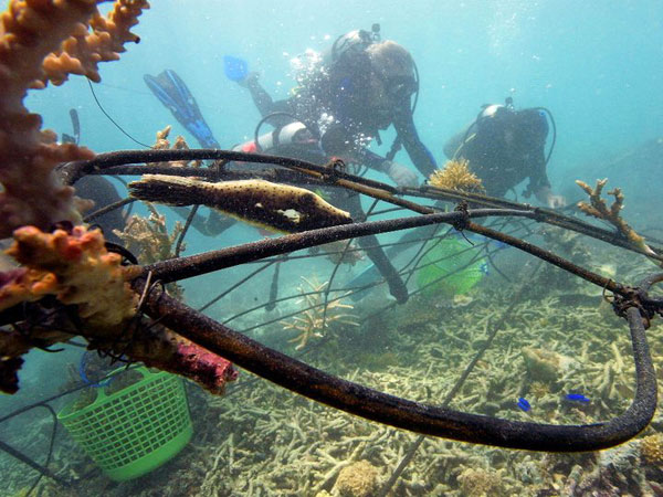 Installing Biorcok reef